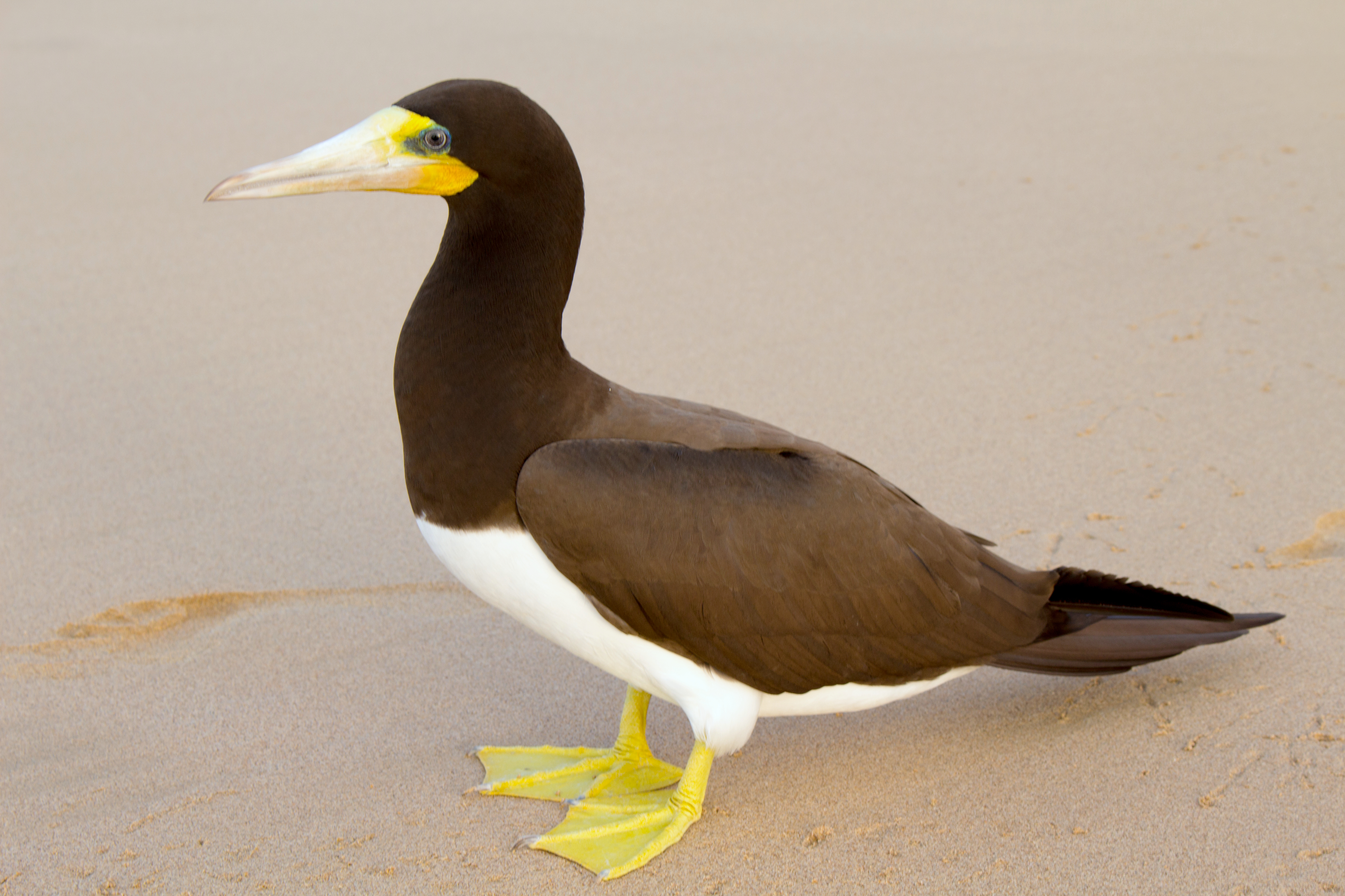 An adult male Brown booby at Fernando de Noronha in the western Atlantic